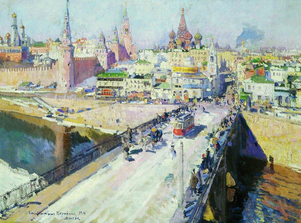 The old Moskvoretsky Bridge, as it is depicted on the painting, was built in 1872. It had been in use till 1938, when it was replaced with the concrete Bolshoy Moskvoretsky Bridge.